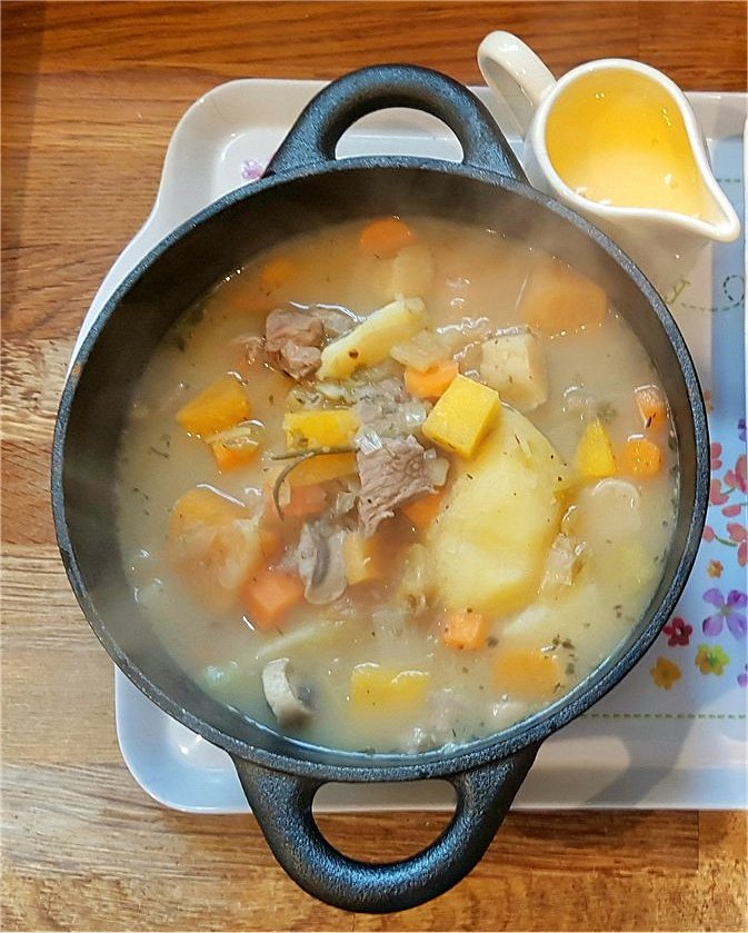 Traditional Irish Stew is made with Lamb in Ireland